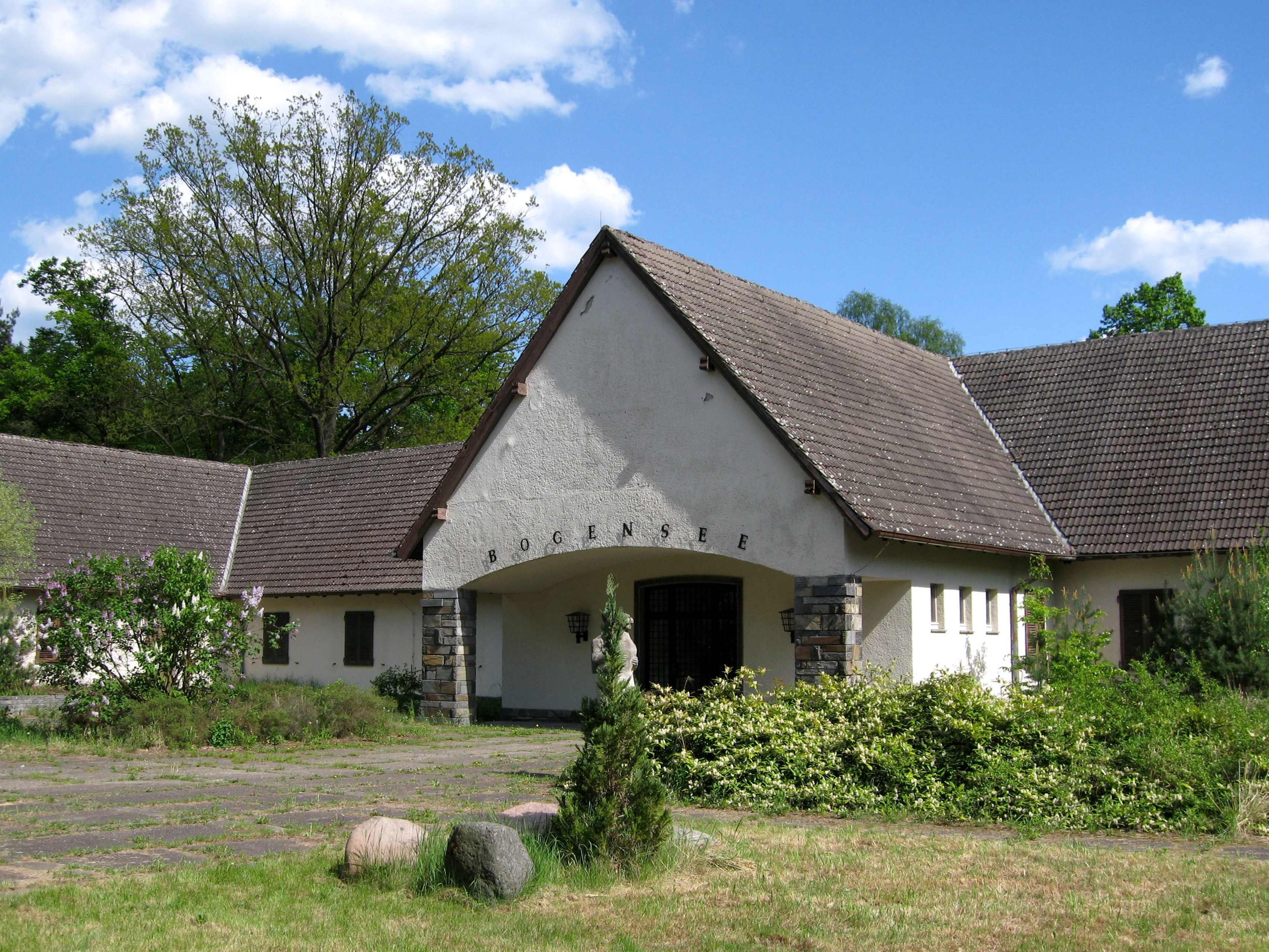 Joseph Goebbels' weekend house at Bogensee Lake, in the village of Lanke.